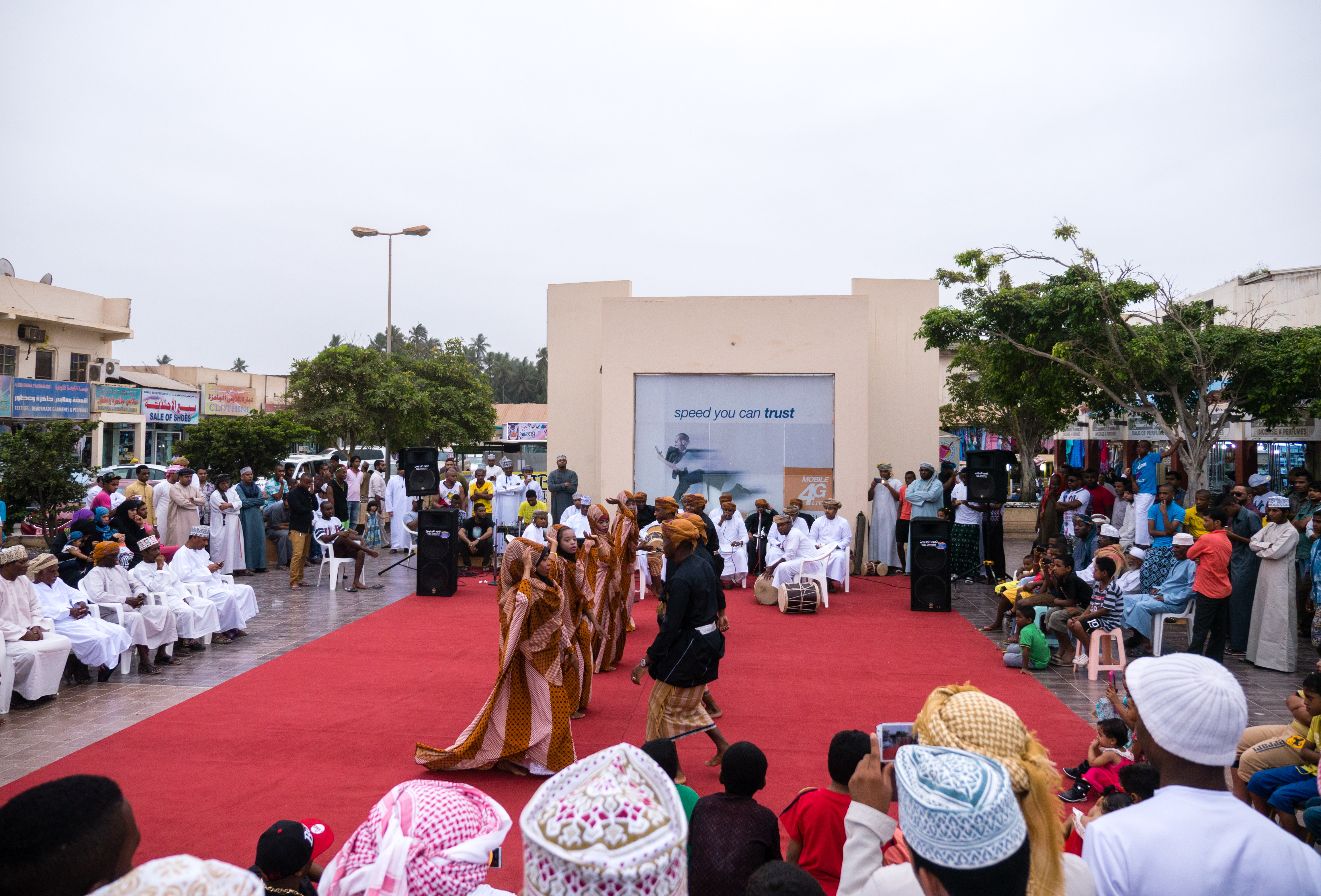 Dance performance during the Salalah Festival in Dhofar, Oman.